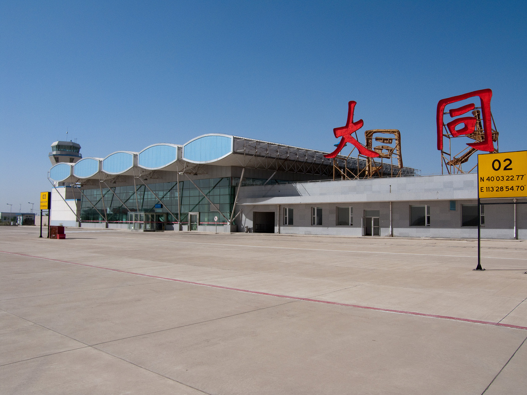 Old Terminal Building of Datong Yungang Airport, Shanxi, China